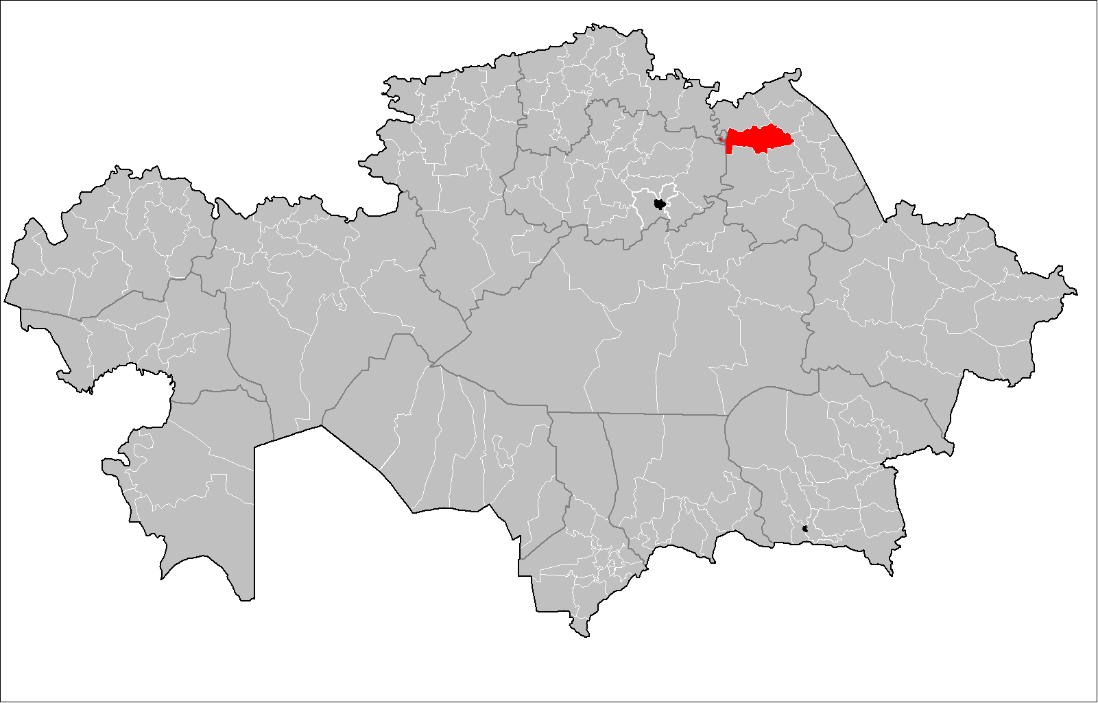 Map of the rayons of Kazakhstan. Created by Rarelibra 16:49, 3 August 2007 (UTC) for public domain use, using MapInfo Professional v8.5 and various mapping resources.